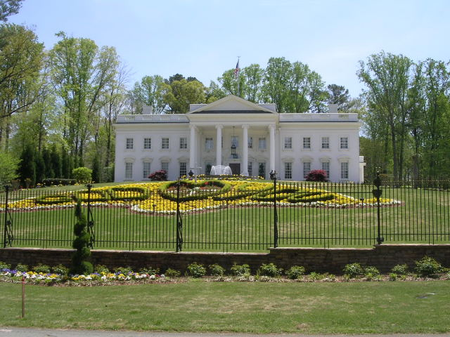 White House Replica in Alanta, owned by Atlanta home builder Fred Milani, an American citizen born in Iran.